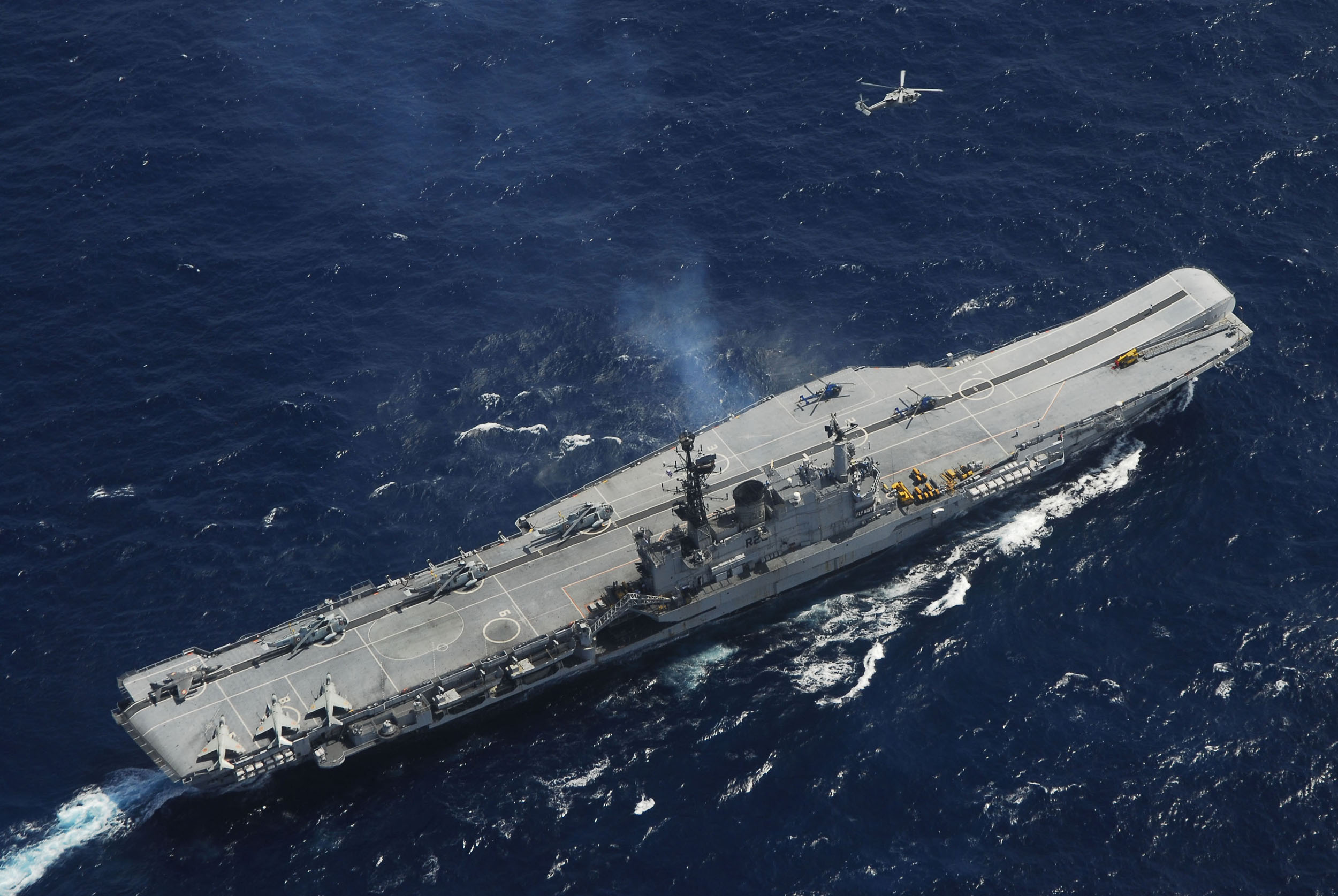 INS Viraat Description:BAY OF BENGAL (Sept. 5, 2007) - INS Viraat steams in formation in the Bay of Bengal during exercise Malabar 07-2 Sept. 5. The multinational exercise includes naval forces from India, Australia, Japan, Singapore, and the United States. In addition to the Viraat, taking part in the formation are USS Kitty Hawk, USS Nimitz, JS Yuudachi, JS Ohnami, RSS Formidable, HMAS Adelaide, INS Ranvijay, INS Brahmaputra, INS Ranjit, USS Chicago and USS Higgins. U.S. Navy photo by Mass Communication Specialist Seaman Stephen W. Rowe.